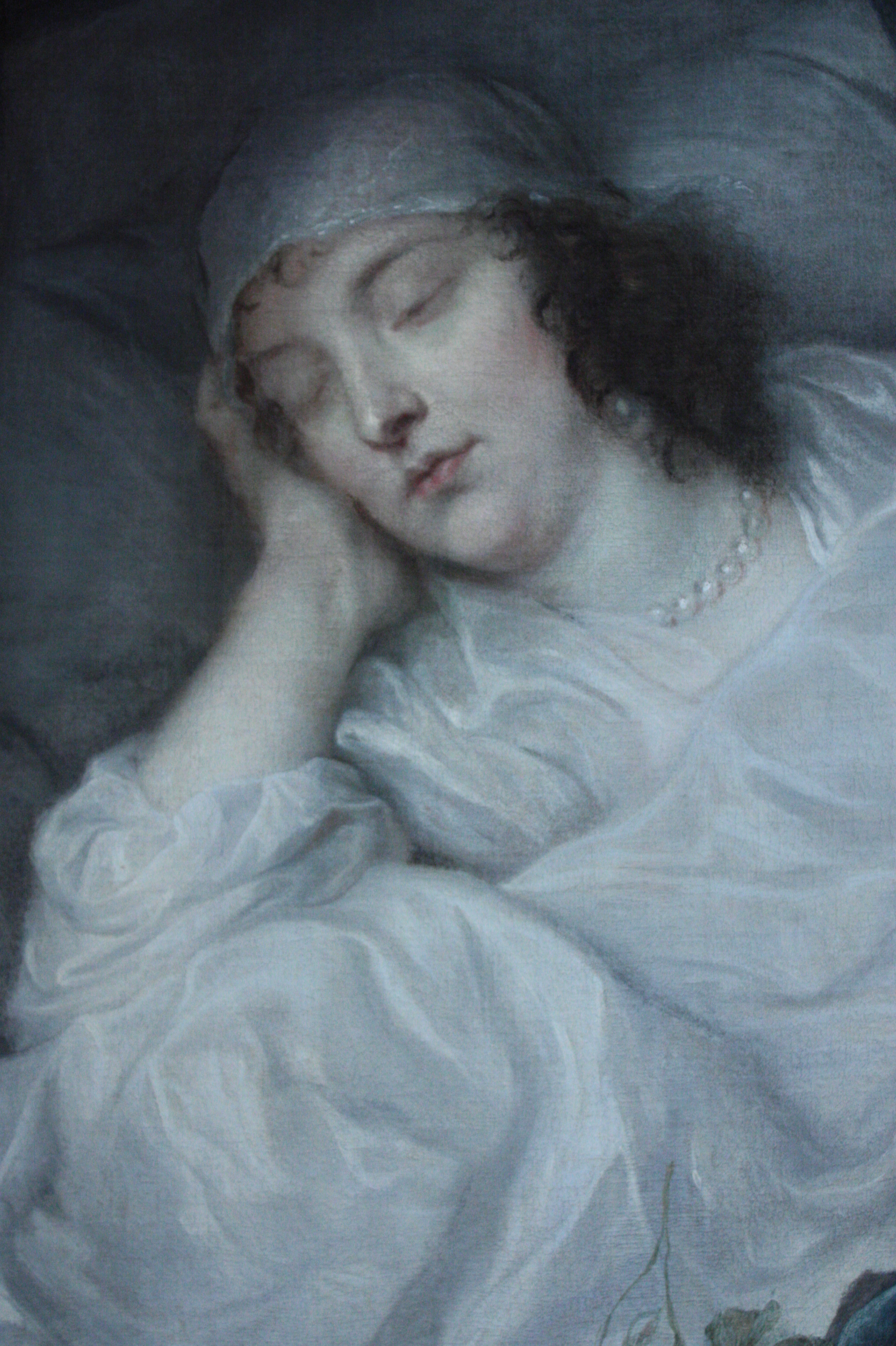 Venetia Stanley on her Death Bed by Anthony van Dyck, 1633, Dulwich Picture Gallery